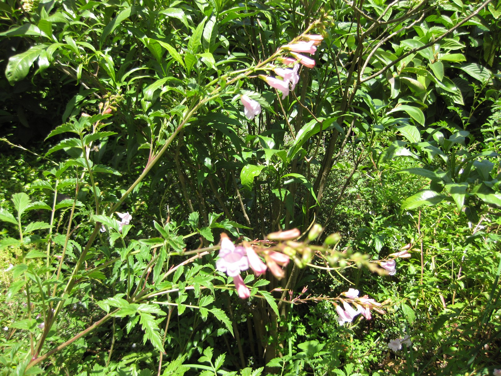 Photographed at the Royal Botanic Gardens Melbourne (Australia) in December